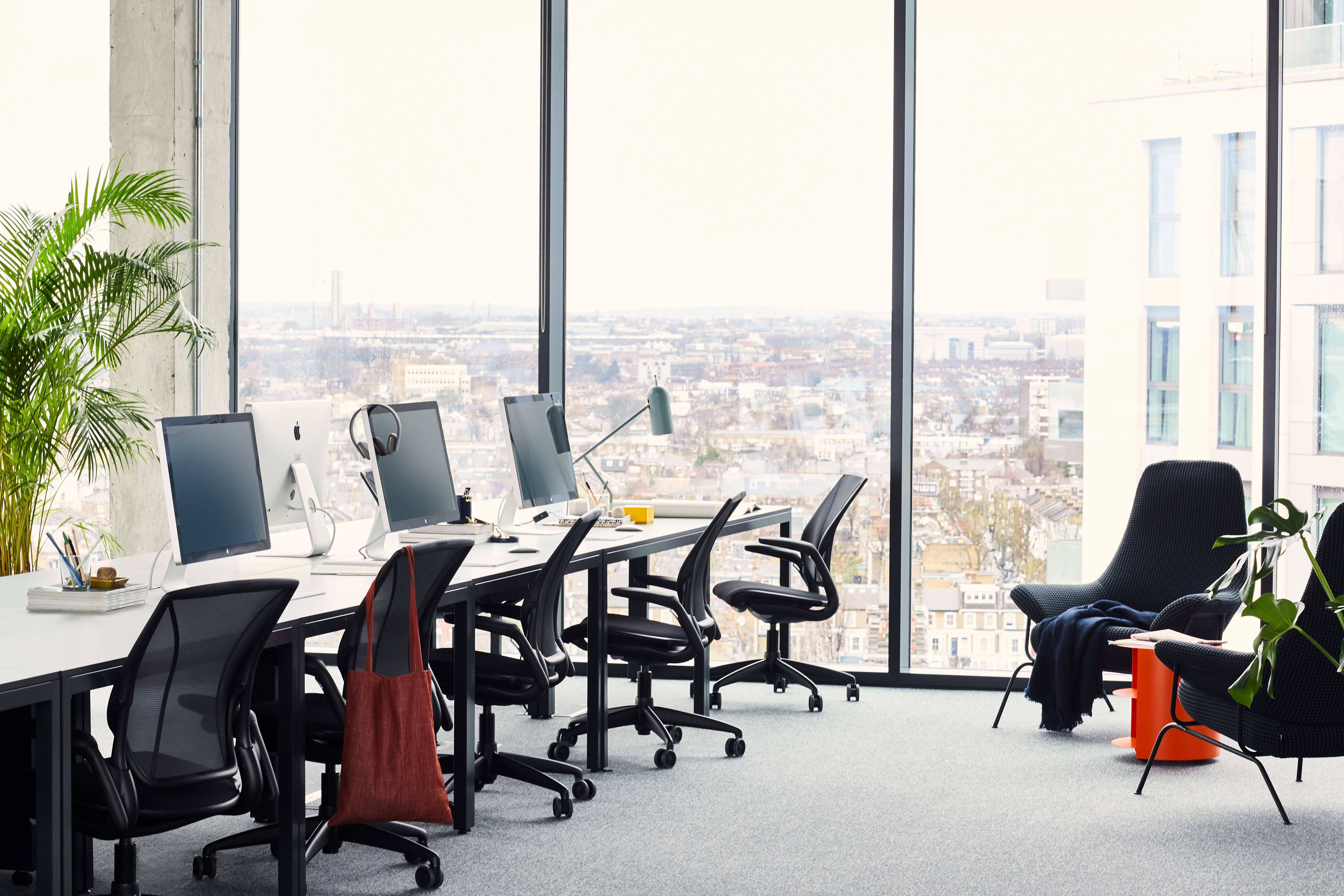 One of TOG's private office spaces at One Lyric Square